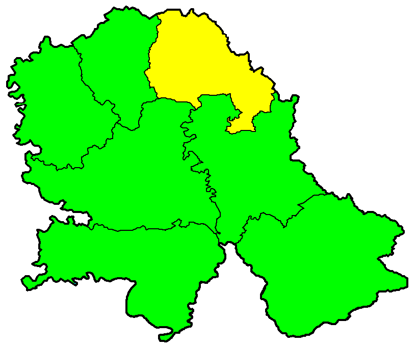 Map of North Banat